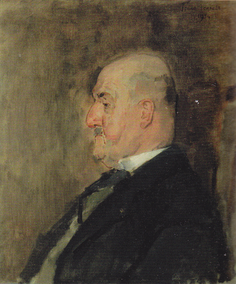 Painting of Dutch writer Lodewijk van Deyssel (1864-1952) by Isaac Israëls (1865-1934)